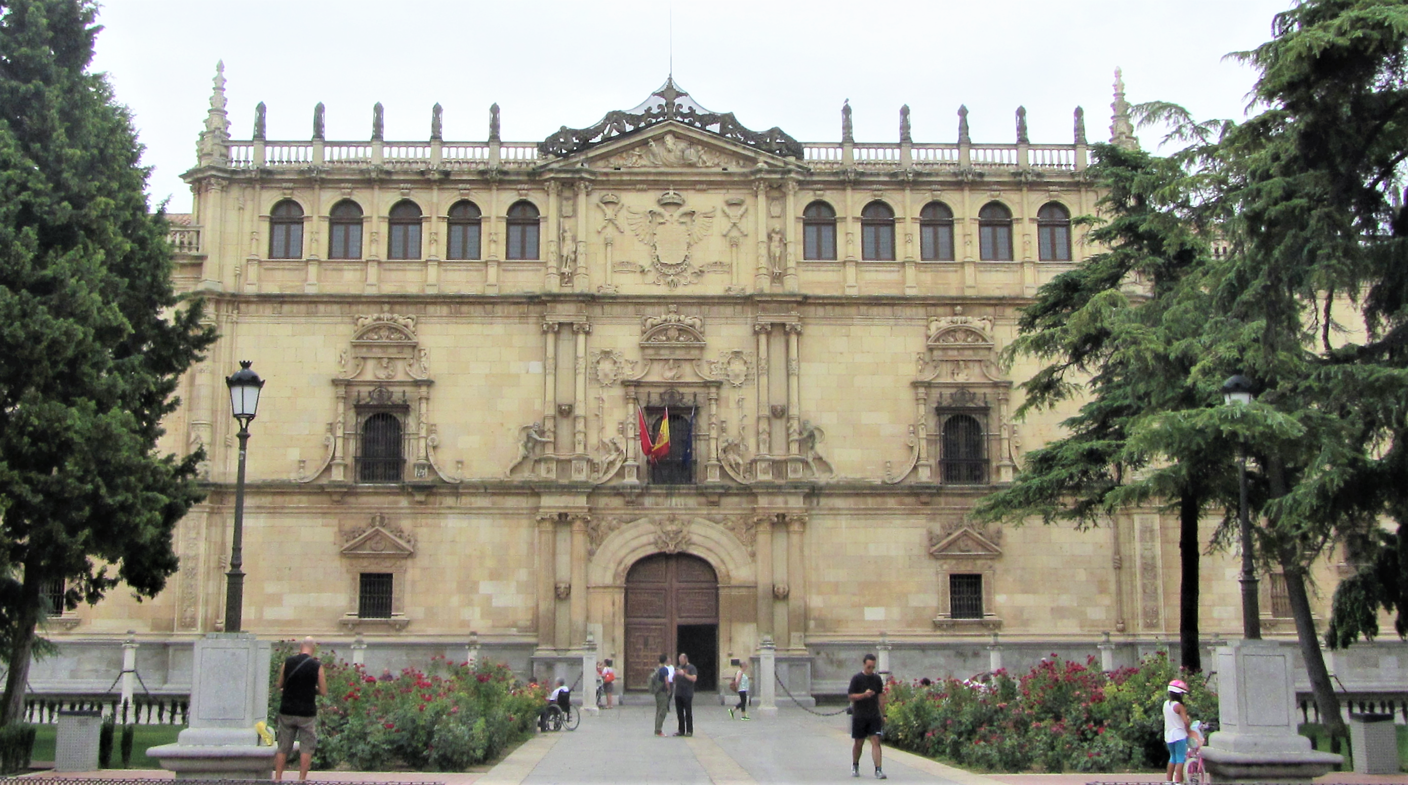 Colegio Mayor de San Ildefonso of the University of Alcalá (Community of Madrid - Spain).